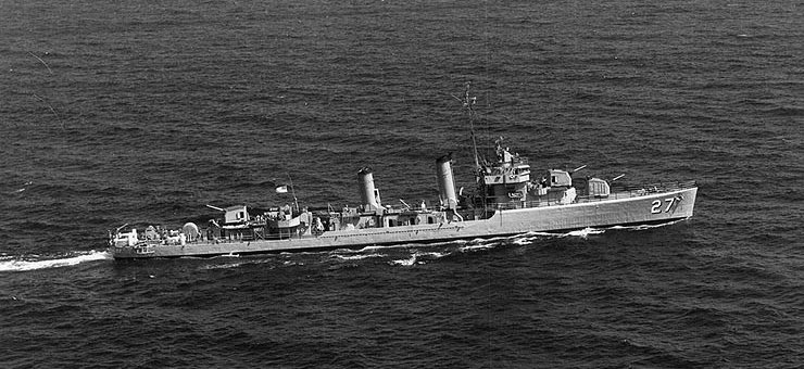 USS Jeffers (DMS-27) Underway, 23 July 1951.